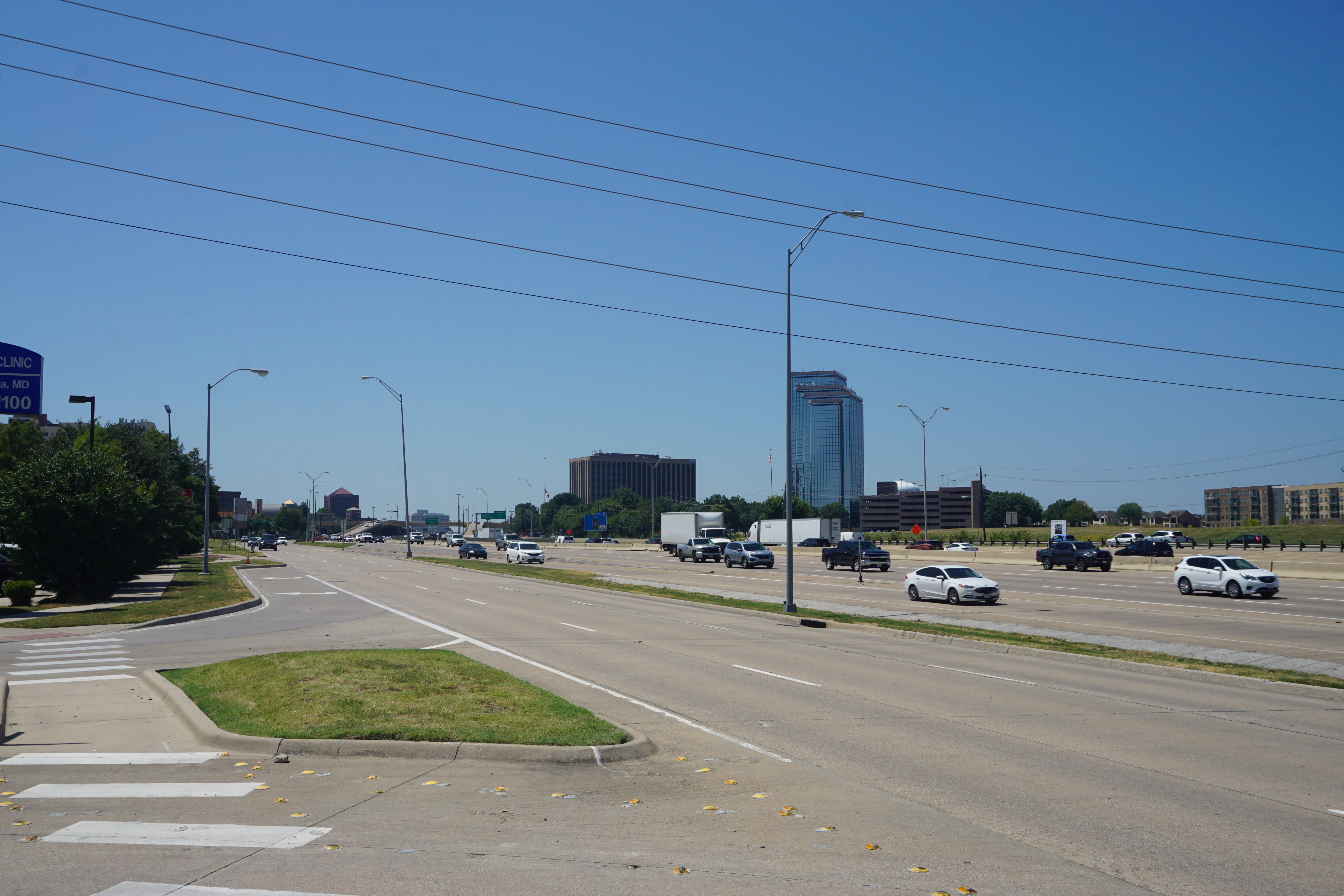 The North Central Expressway in Richardson, Texas (United States).